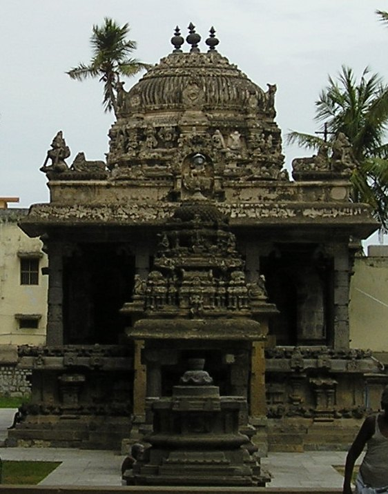 Hindu Temples